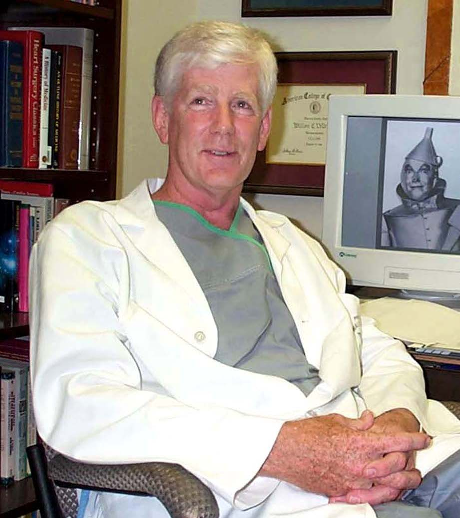 Dr. William C. DeVries, the heart specialist who implanted the world's first permanent artificial heart in the 1980.